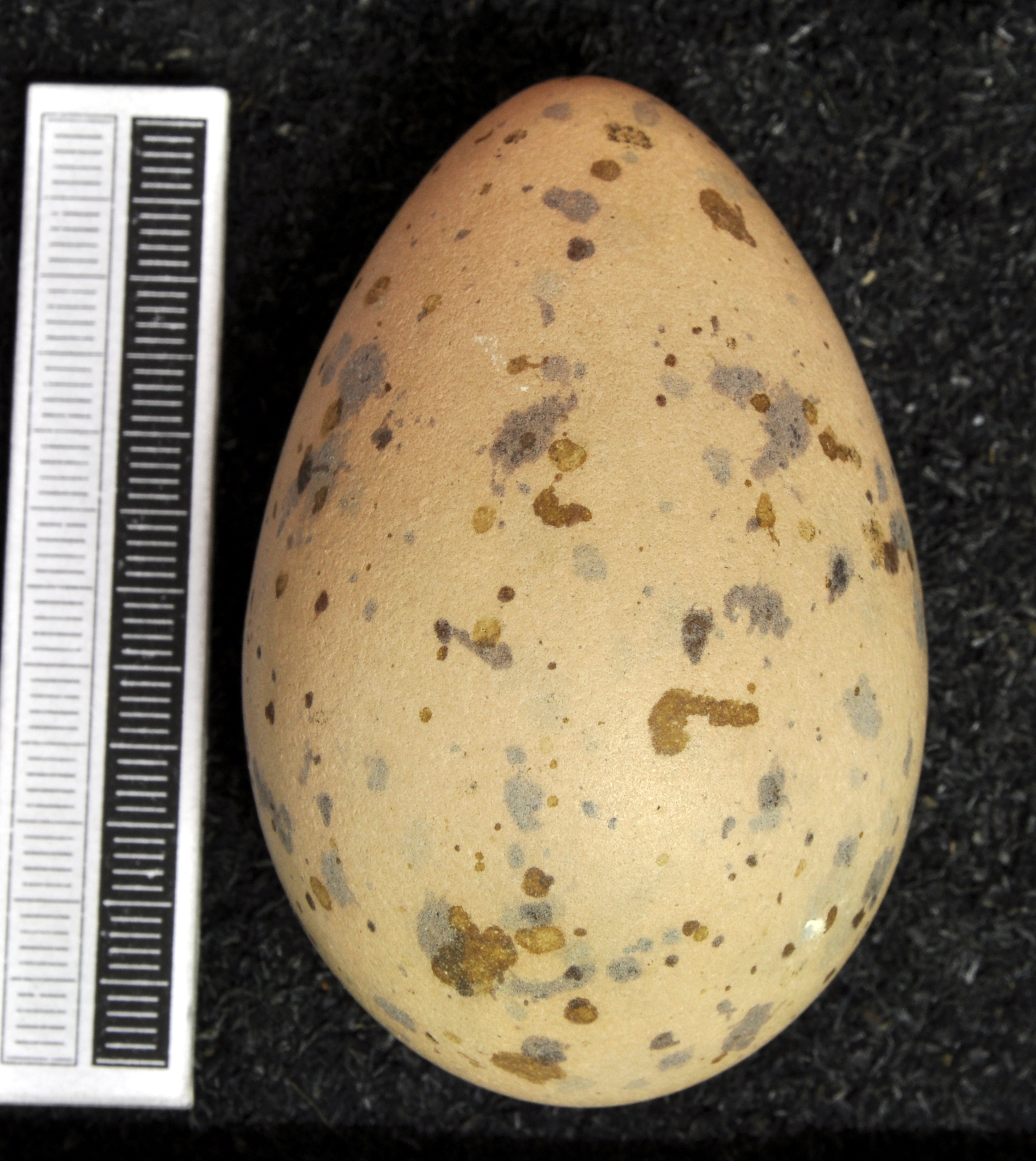 Caspian tern Hydroprogne caspia , egg, Coll. Museum Wiesbaden